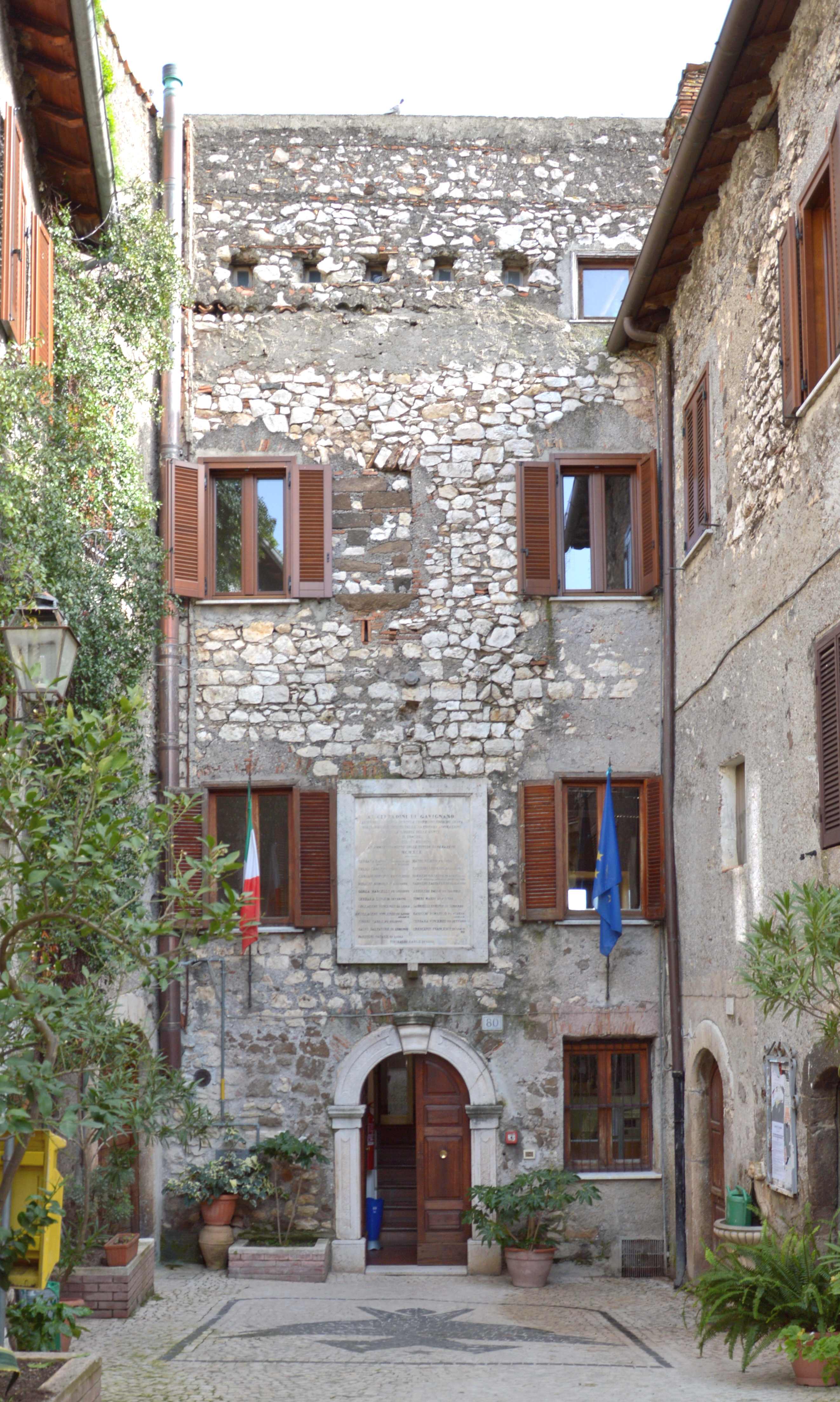 Gavignano (Rm)